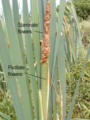 Flowering stalk of Typha latifolia (Typhaceae) showing separation of male (staminate) and female (pistillate) flower spikes.